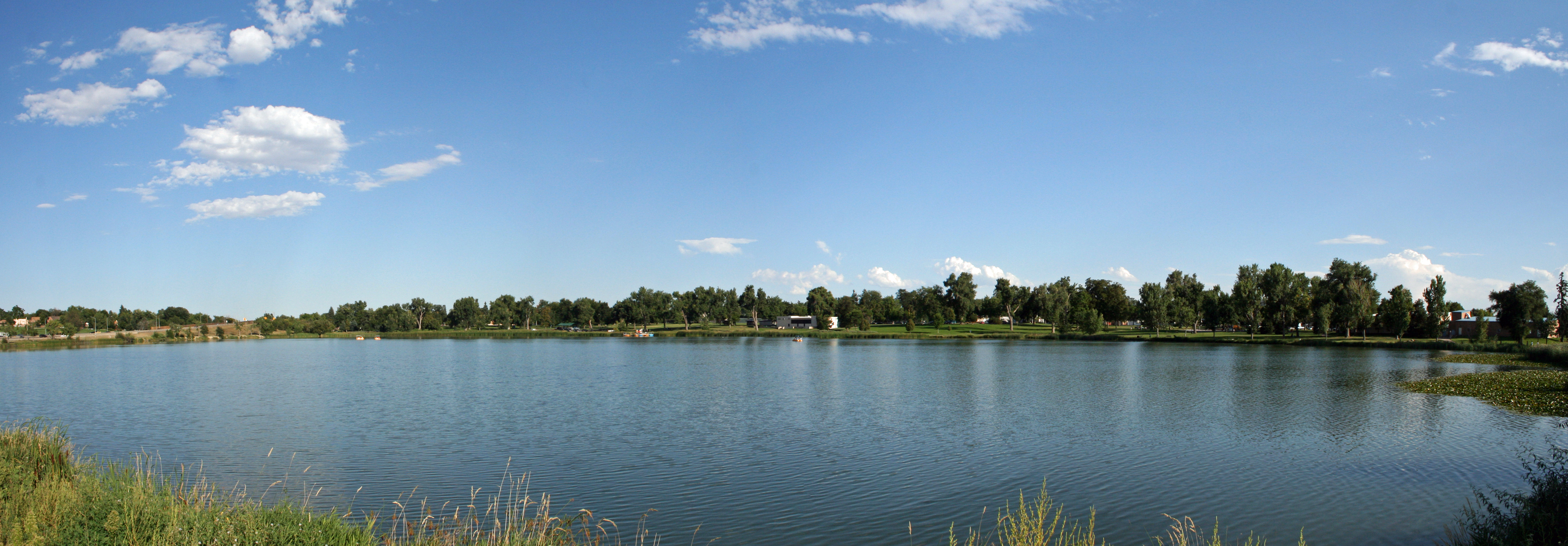 Berkeley Lake Park in Denver, Colorado, a park listed on the National Register of Historic Places.